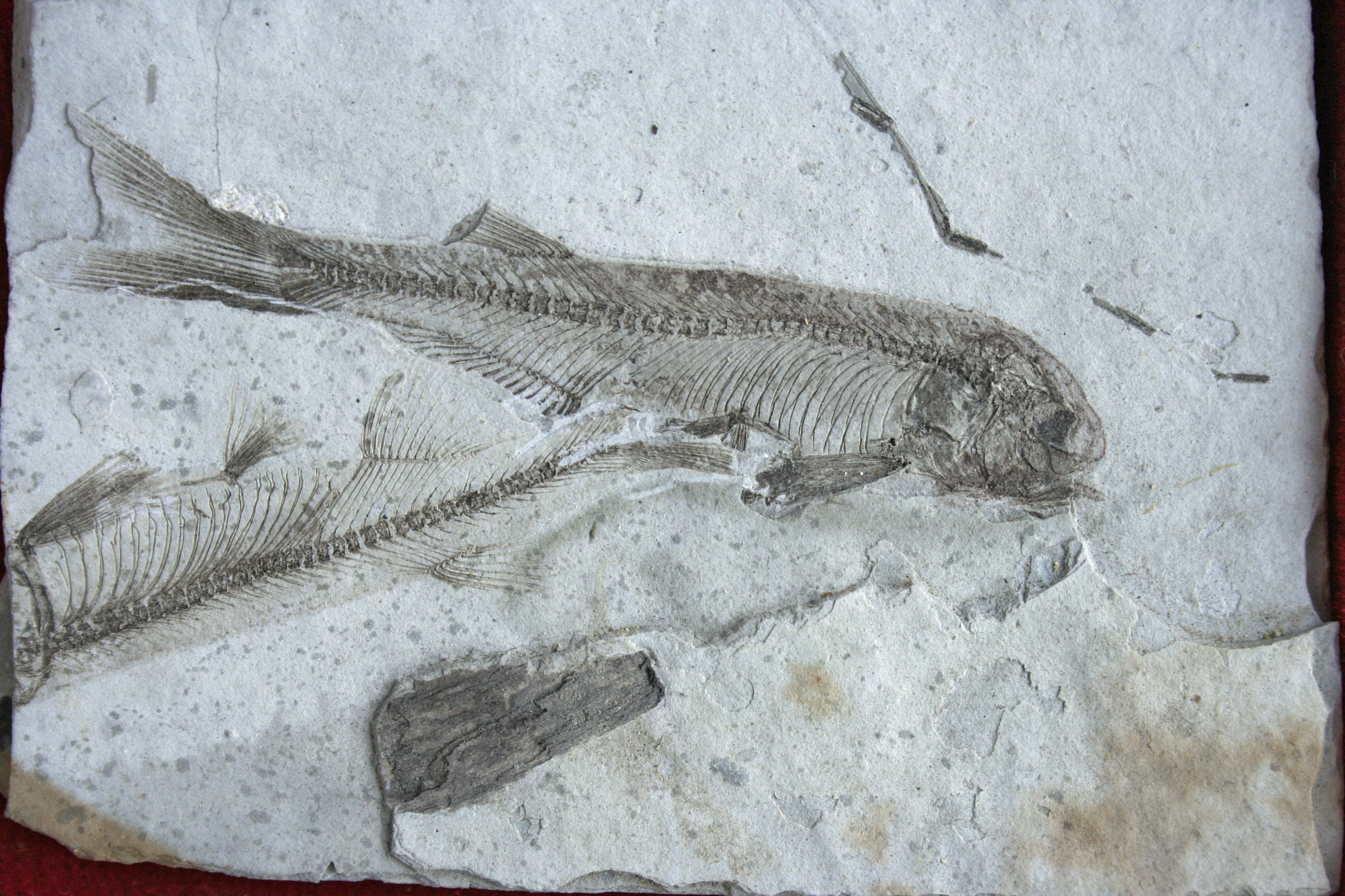 Lycoptera Fish fossil - LIAOXI, China - cca. 150 000 000 Years